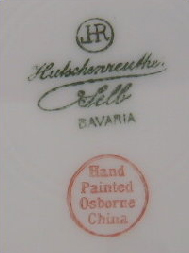 Osborne Art Studio decorated Hutschenreuther Selb 6-1/4 inch diameter plate. Source Richard Arthur Norton (1958- ) archive Jensen family china collection